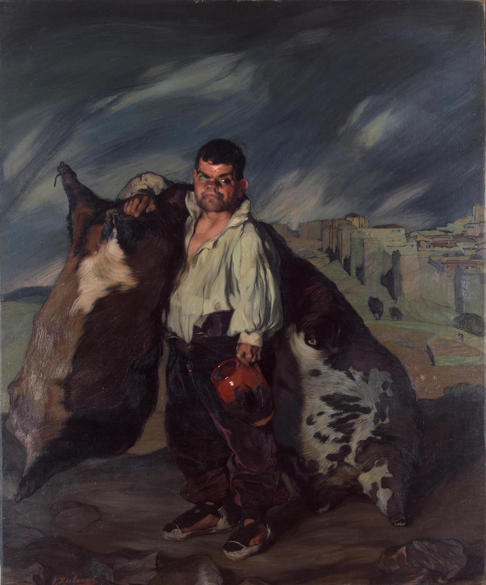 Dwarf Gregorio